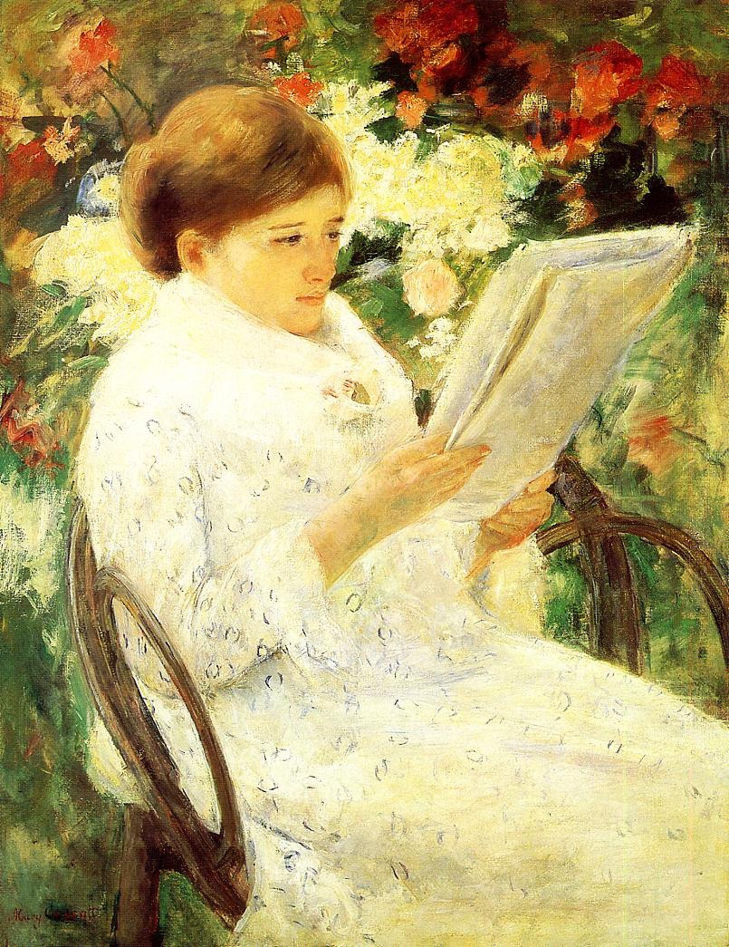 Mary Cassatt's art